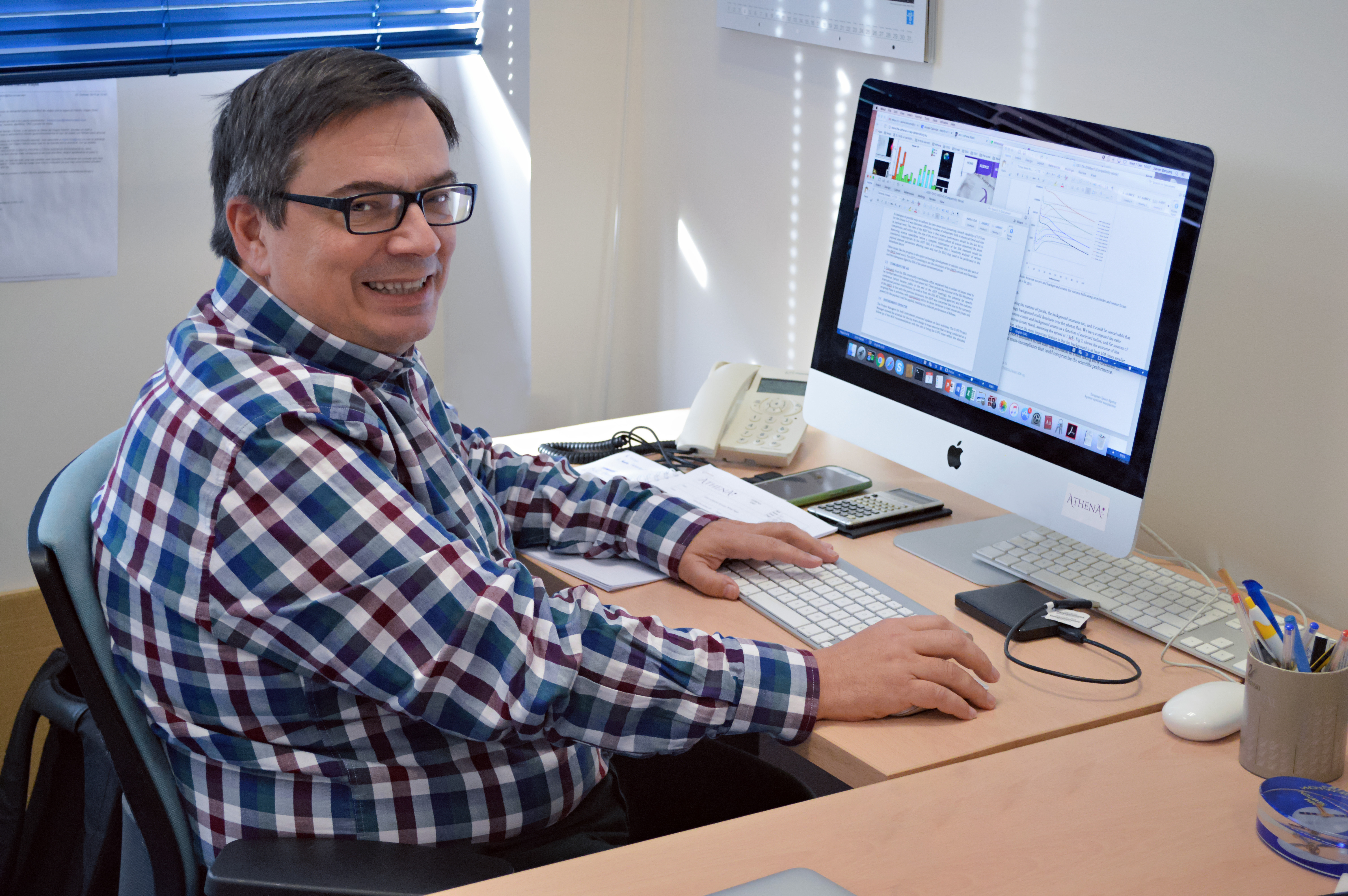 The ESO Council appointed Xavier Barcons as the next Director General of ESO at its meeting in Garching on 7–8 December 2016. He takes up his position on 1 September 2017, when Tim de Zeeuw, the current Director General, completes his mandate. Xavier Barcons is Spanish and has had a distinguished career both in the academic world and also as an expert in science policy. He is also well known at ESO after his active and successful term as Council President between 2012 and 2014, a period that included the approval of the E-ELT Programme and the start of Phase 1 of the telescope’s construction.